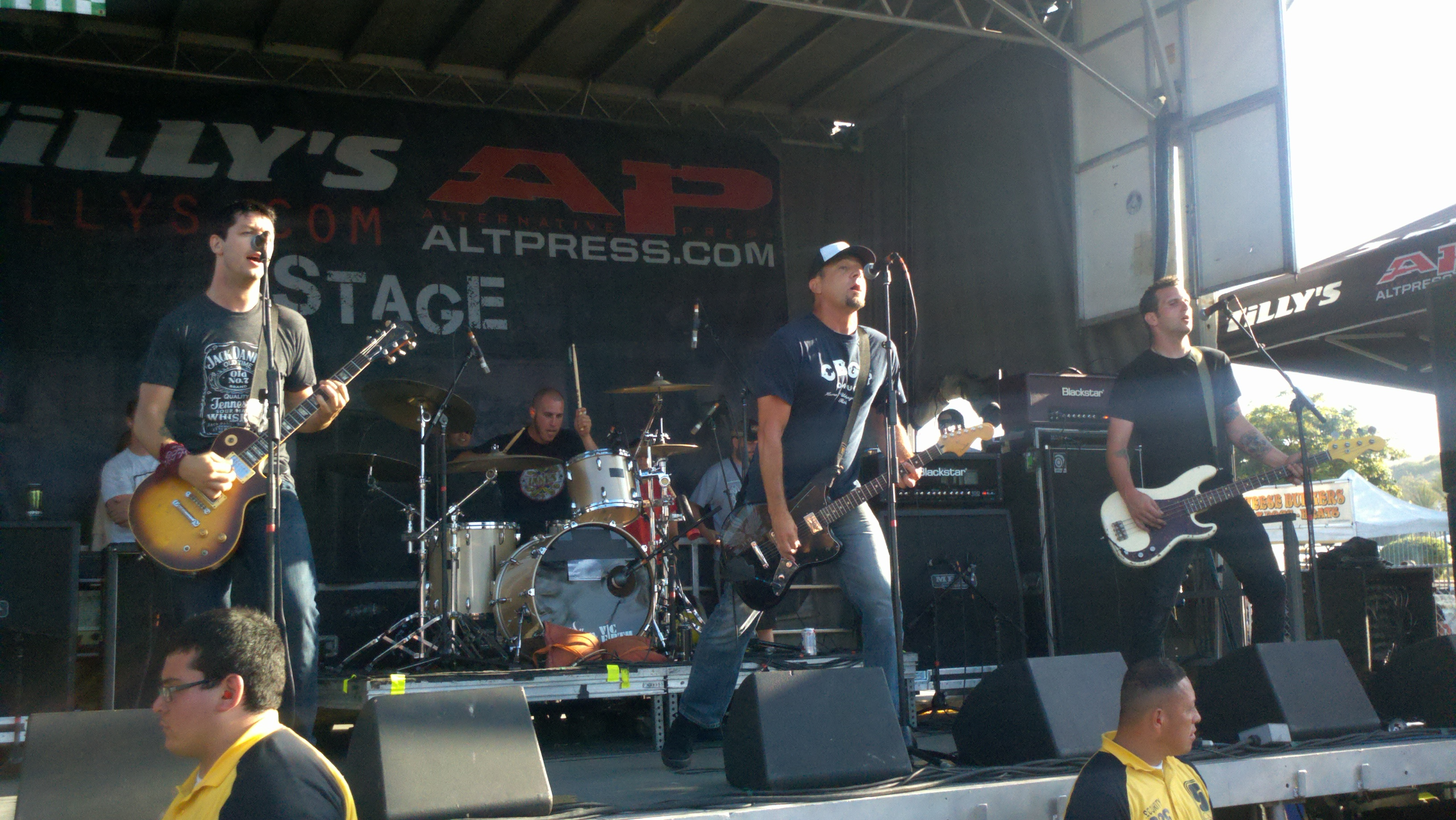 The Black Pacific performing on the Warped Tour in Chula Vista, California on August 9, 2011. Left to right: lead guitarist Marc Orrell, drummer Alan Vega, singer/rhythm guitarist Jim Lindberg, and bassist Gavin Caswell.